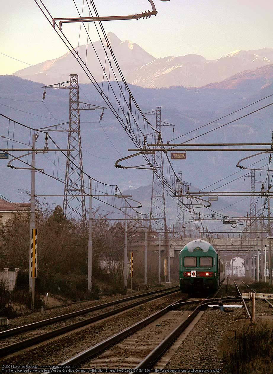 The Frejus railway (Italy): a train from Bardonecchia to Torino Porta Nuova is reaching the station of Sant'Ambrogio, with mount Rocciamelone (3538 m) on the background